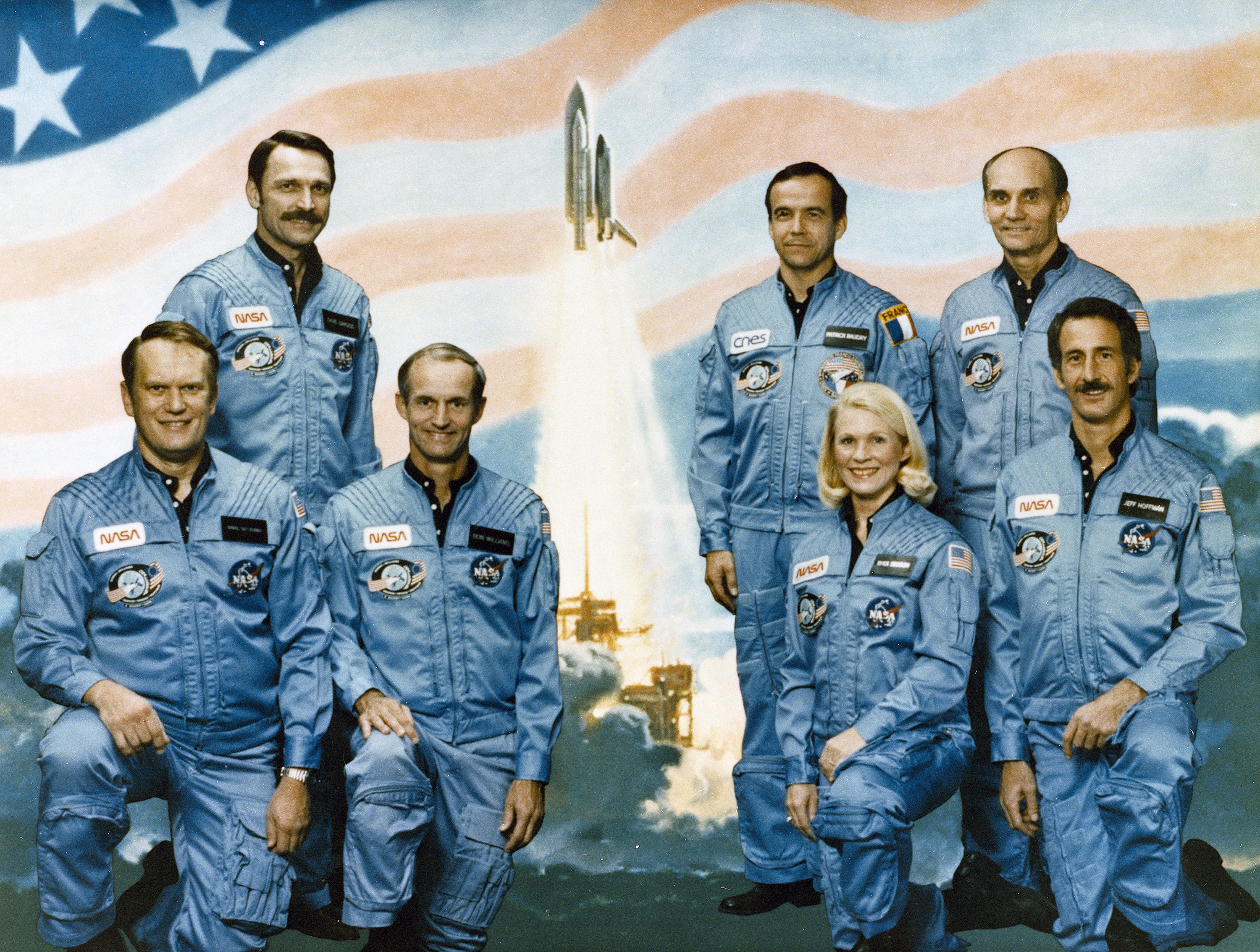 The crew assigned to the STS-51D mission included (front left to right) Karol J. Bobko, commander; Donald E. Williams, pilot; M. Rhea Seddon, mission specialist; and Jeffrey A. Hoffman, mission specialist. On the back row, left to right, are S. David Griggs, mission specialist; and payload specialists Patrick Baudry of France, and E. Jake Garn (Republican Utah Senator). Launched aboard the Space Shuttle Discovery on April 12, 1985 at 8:59:05 am (EST), the STS-51D mission's primary payloads were the TELESAT-1 (ANIK-C) communications satellite and the SYNCOM IV-3 (also known as LEASAT-3).